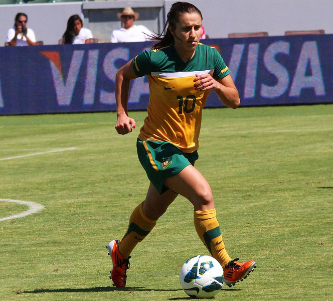 Australian WNT defender Servet Uzunlar playing against the USWNT in September 2012 during an international friendly in Carson, LA